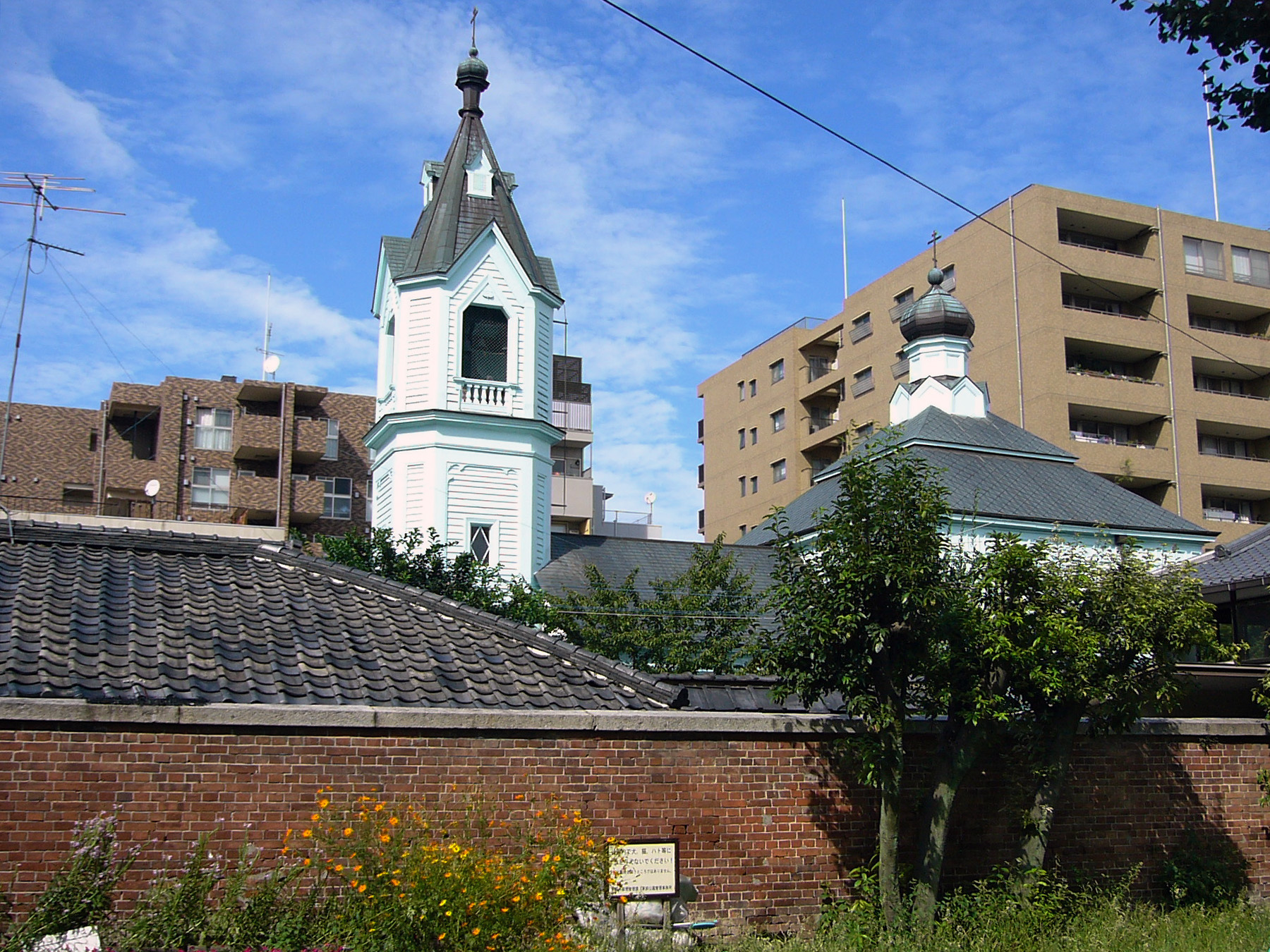 Kyoto Annunciation Cathedral in Kyoto, Kyoto prefecture, Japan